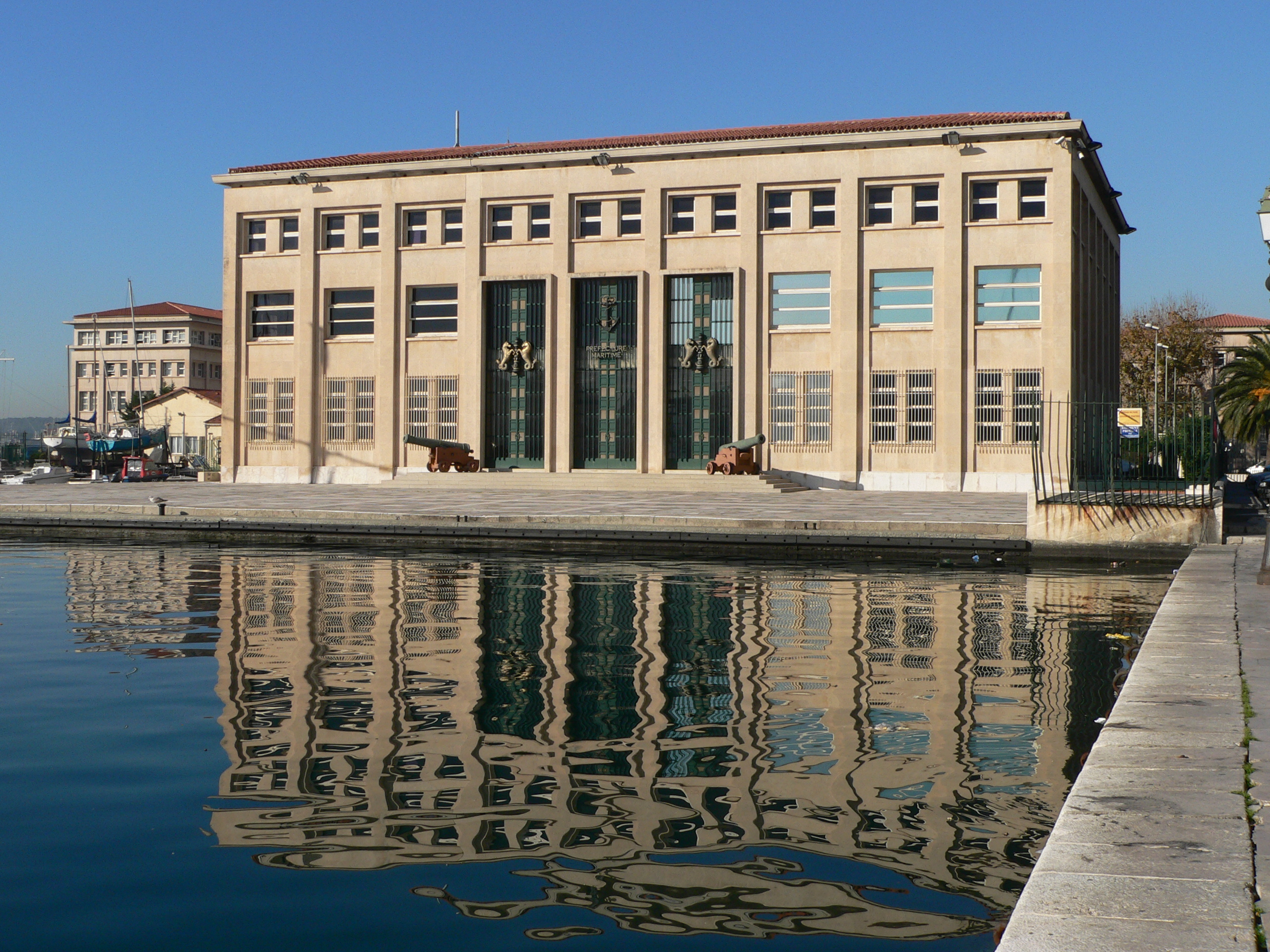 Toulon, France: the maritime prefecture